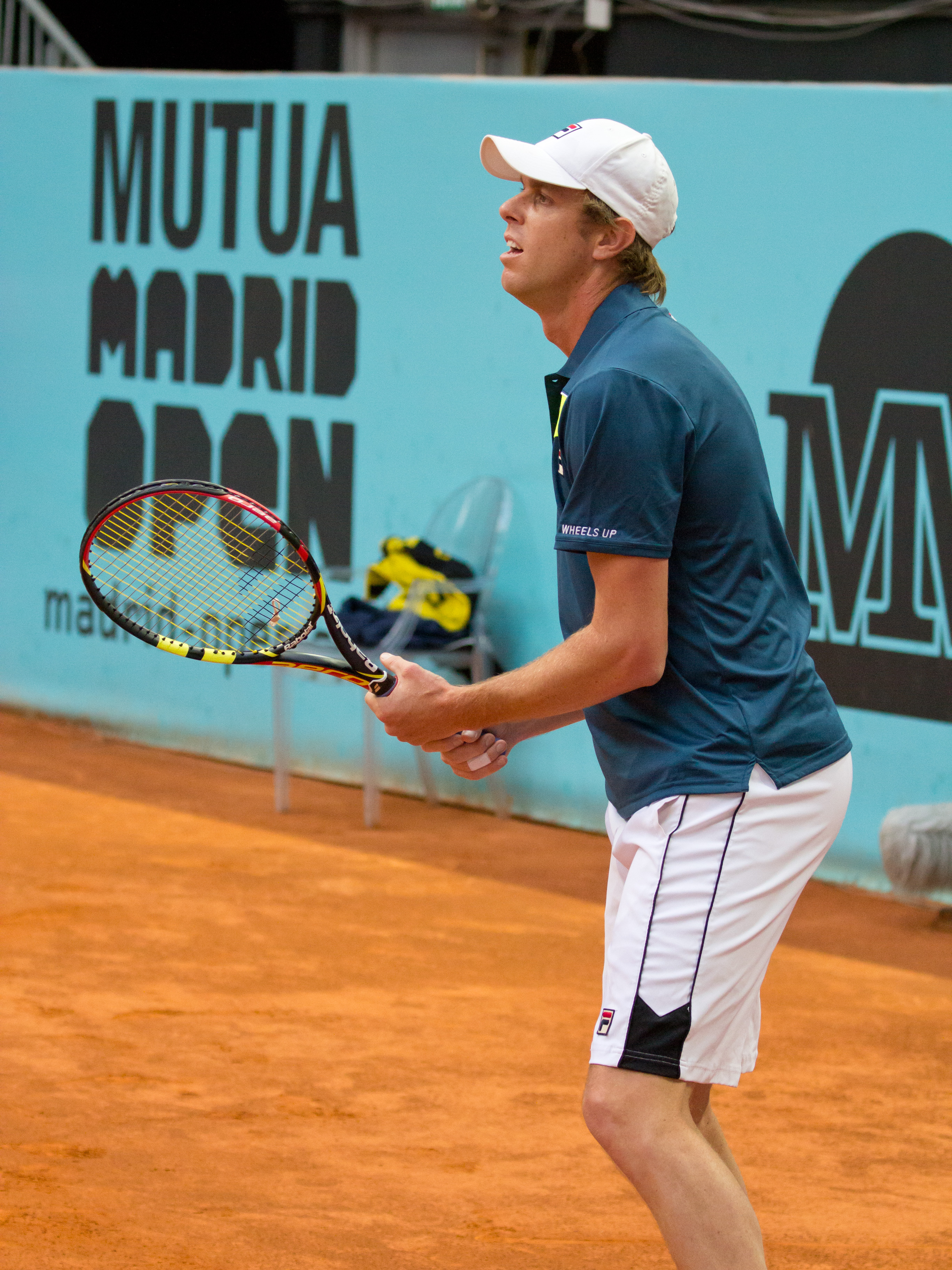 Sam Querrey at the Madrid Open 2015, Madrid, Spain.